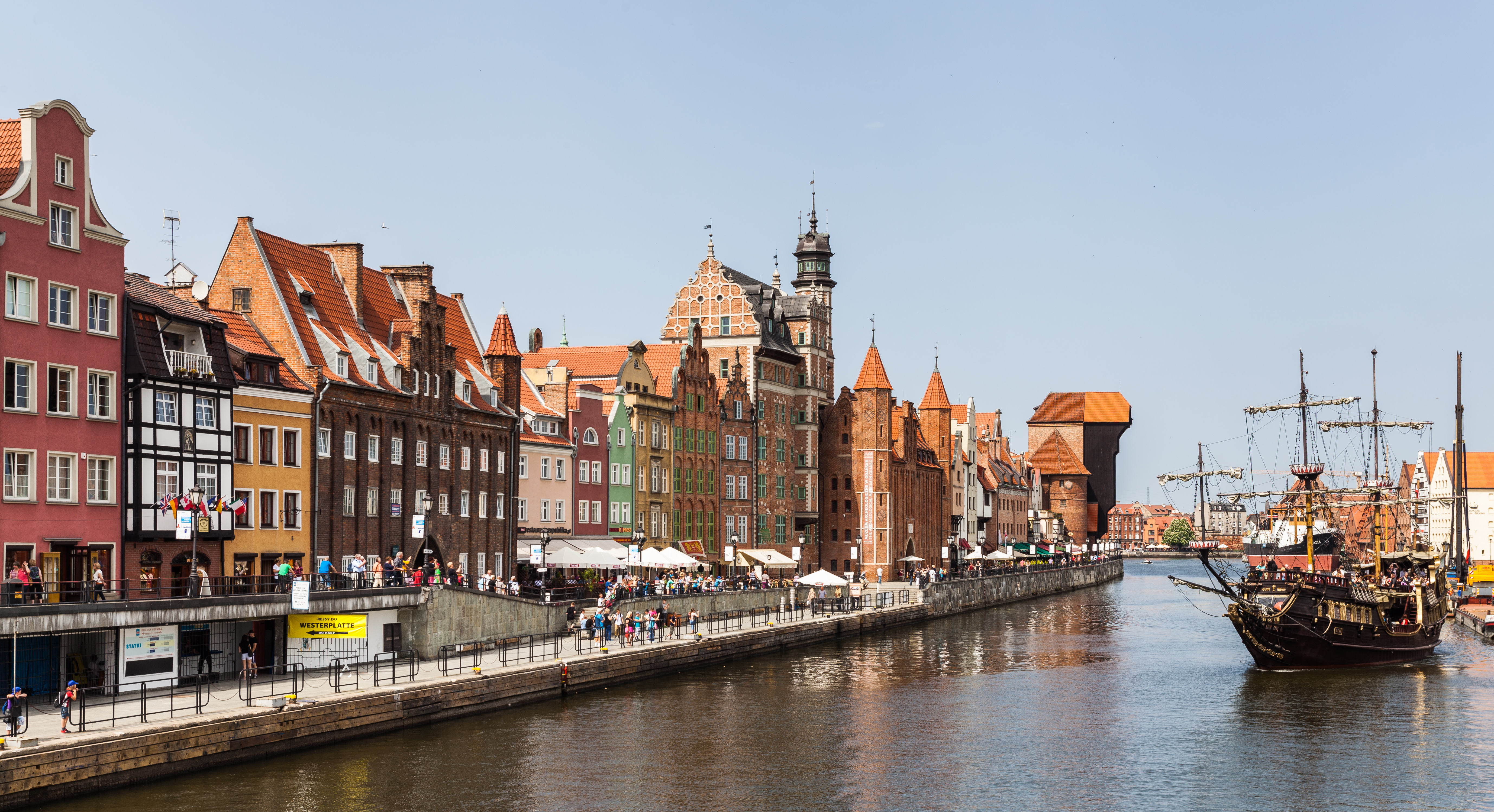 Dlugie Pobrzeze St., Gdansk, Poland Żuraw: 12.1959.